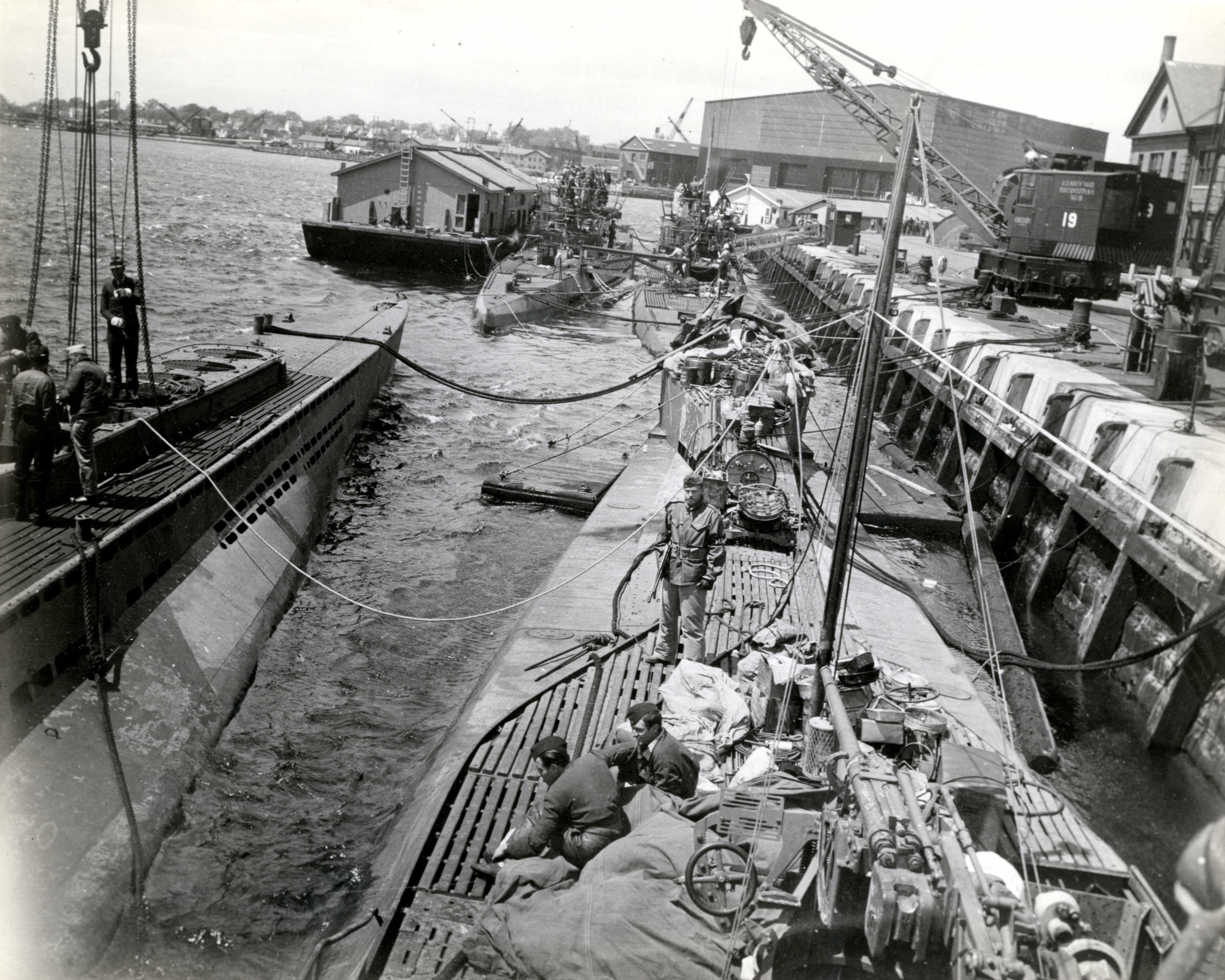 Four surrendered submarines at the Portsmouth Naval Shipyard, New Hampshire (USA), in May 1945. The photo was taken from one of the Type IXC/40 submarines U-805 or U-1228; The minelaying Type XB submarine U-234 is visible to the left; Tied up in front is one of the IXC/40 submarines and U-873 (Type IXD).